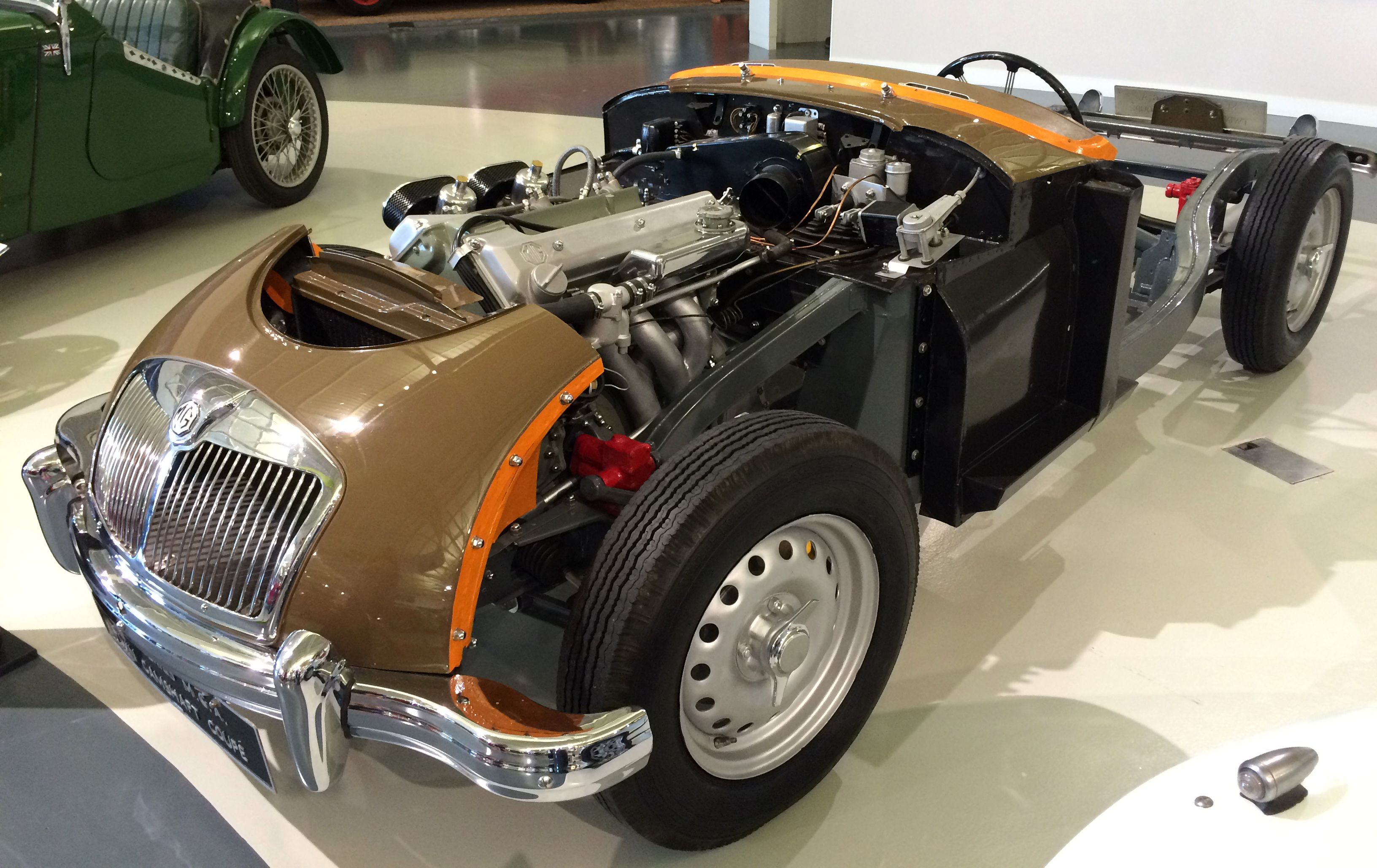 1958 MGA Twin-Cam coupé British Motor Museum 09-2016